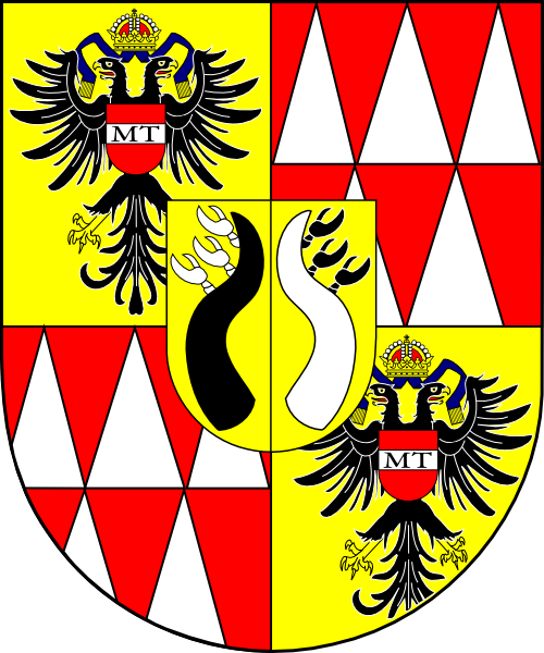 Coat of arms (shield only) of Bishop Mathias Franz Count of Chorinsky Baron of Ledske, first bishop of Brno, Czech Republic (1777 - 1786).